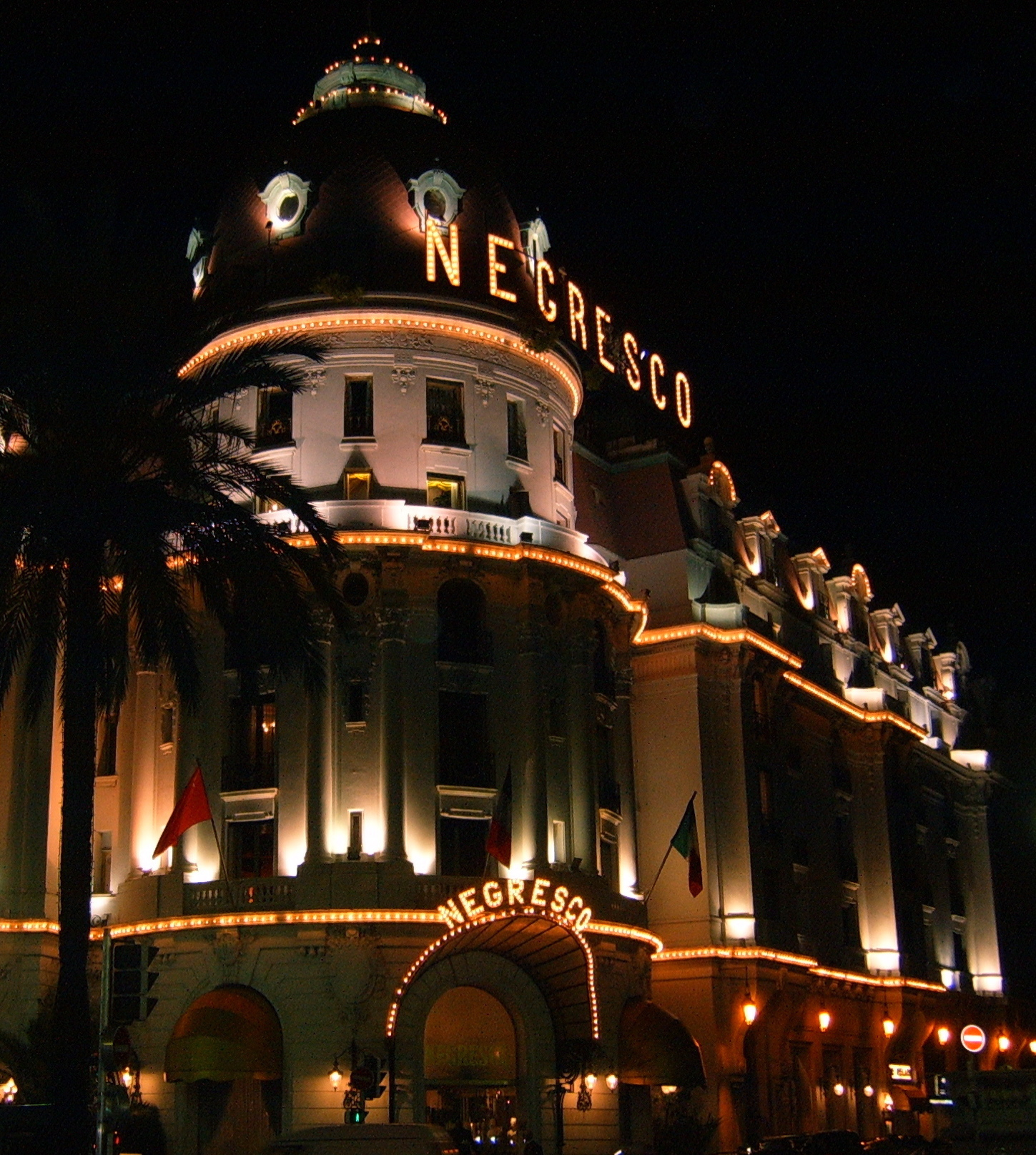 Hotel Negresco by night (Nice, French Riviera)